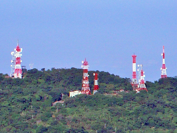 Antennas were set up for Digital television on Mount Zhentou,Tainan,Taiwan中文（台灣）: 位於臺南白河枕頭山上的數位電視與廣播電臺發射站